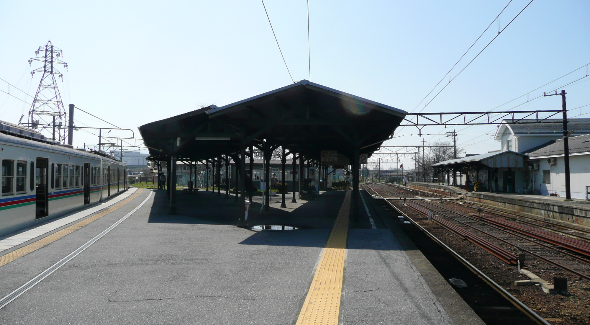 Ohmi Railway, TakaMiya Station platform.